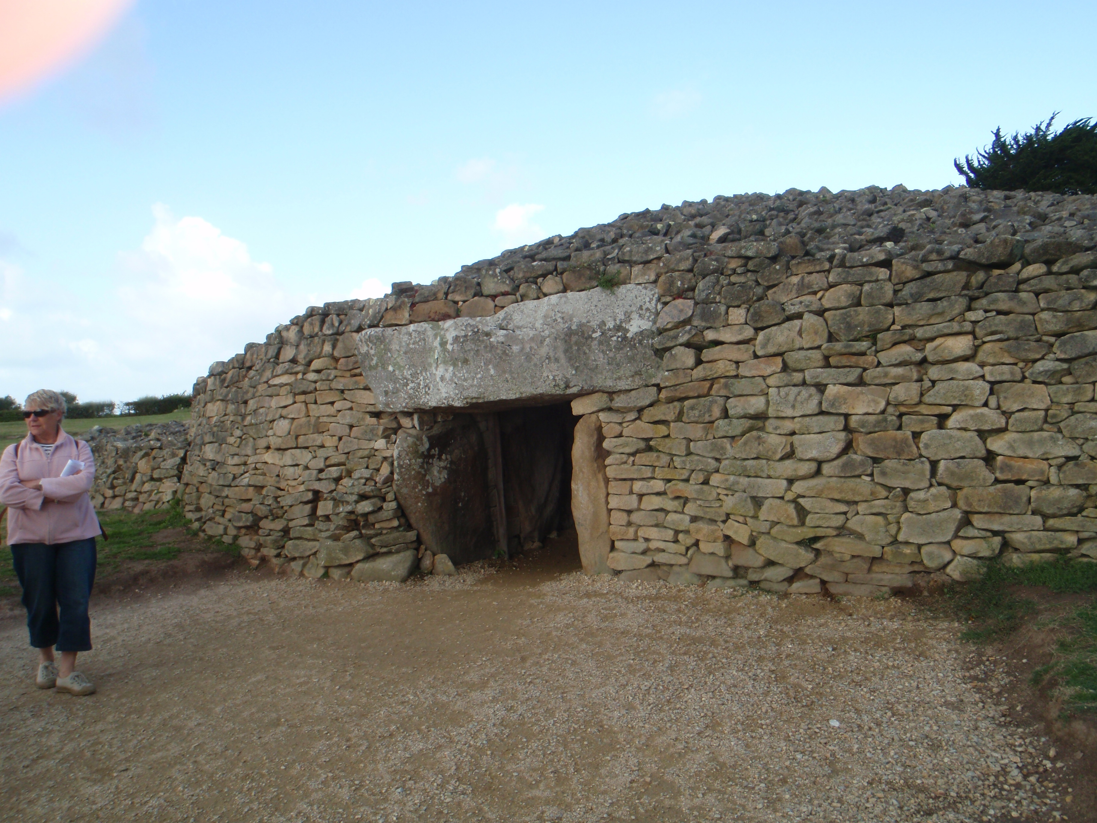 Entrance to dolmen (tumulus) Er Grah in Locmariaquer, Bretagne